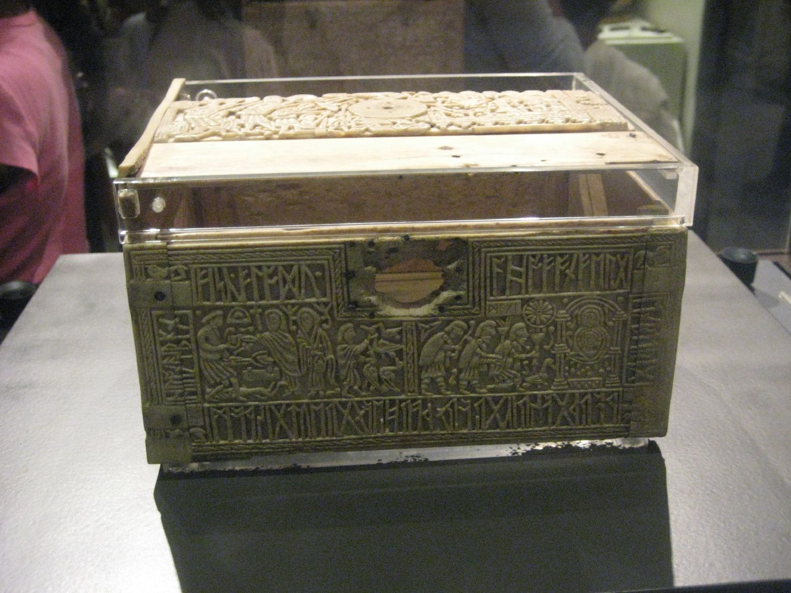 The front panel of the Franks casket.